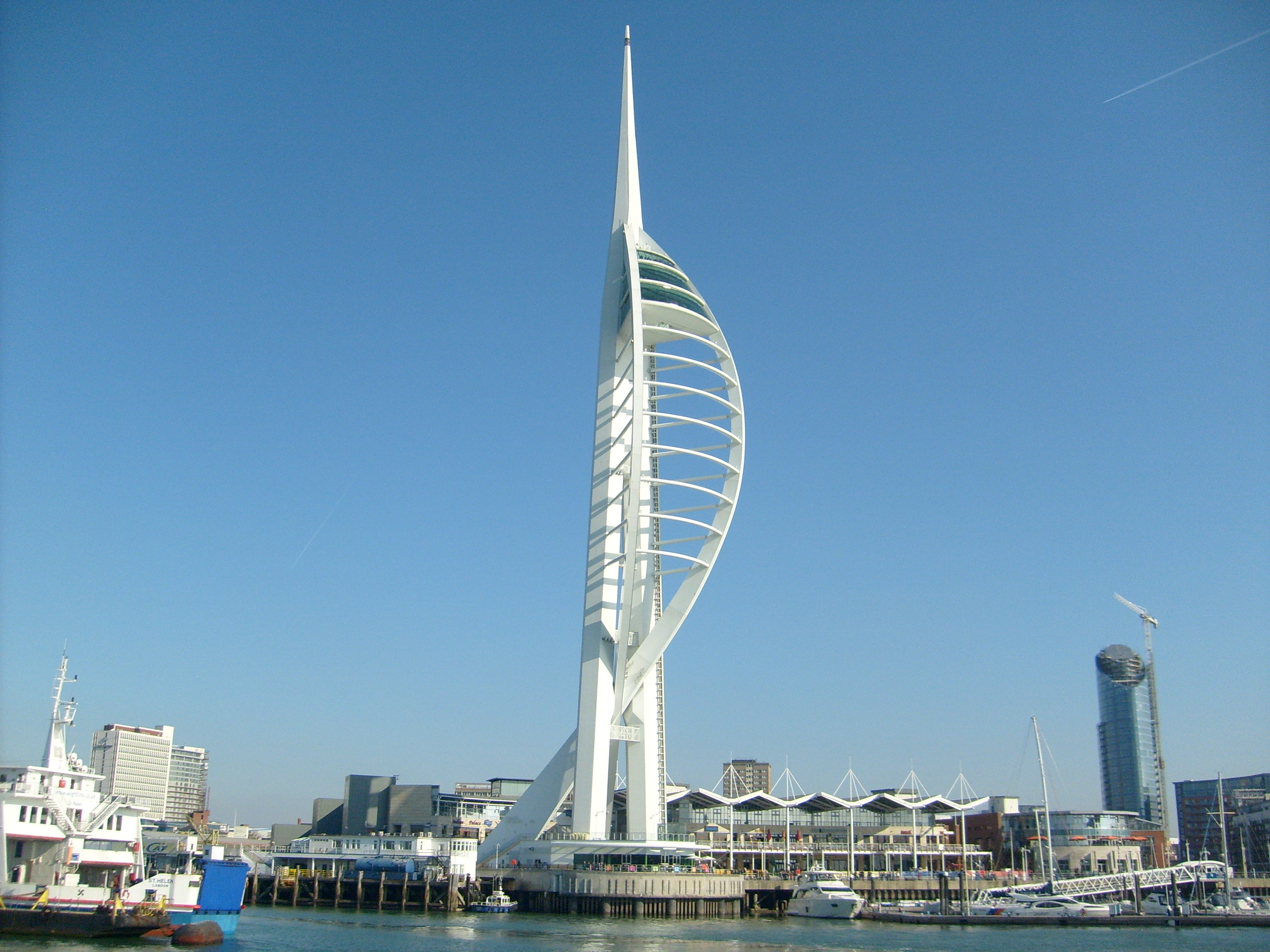 The Spinnaker Tower from the Gosport Ferry.